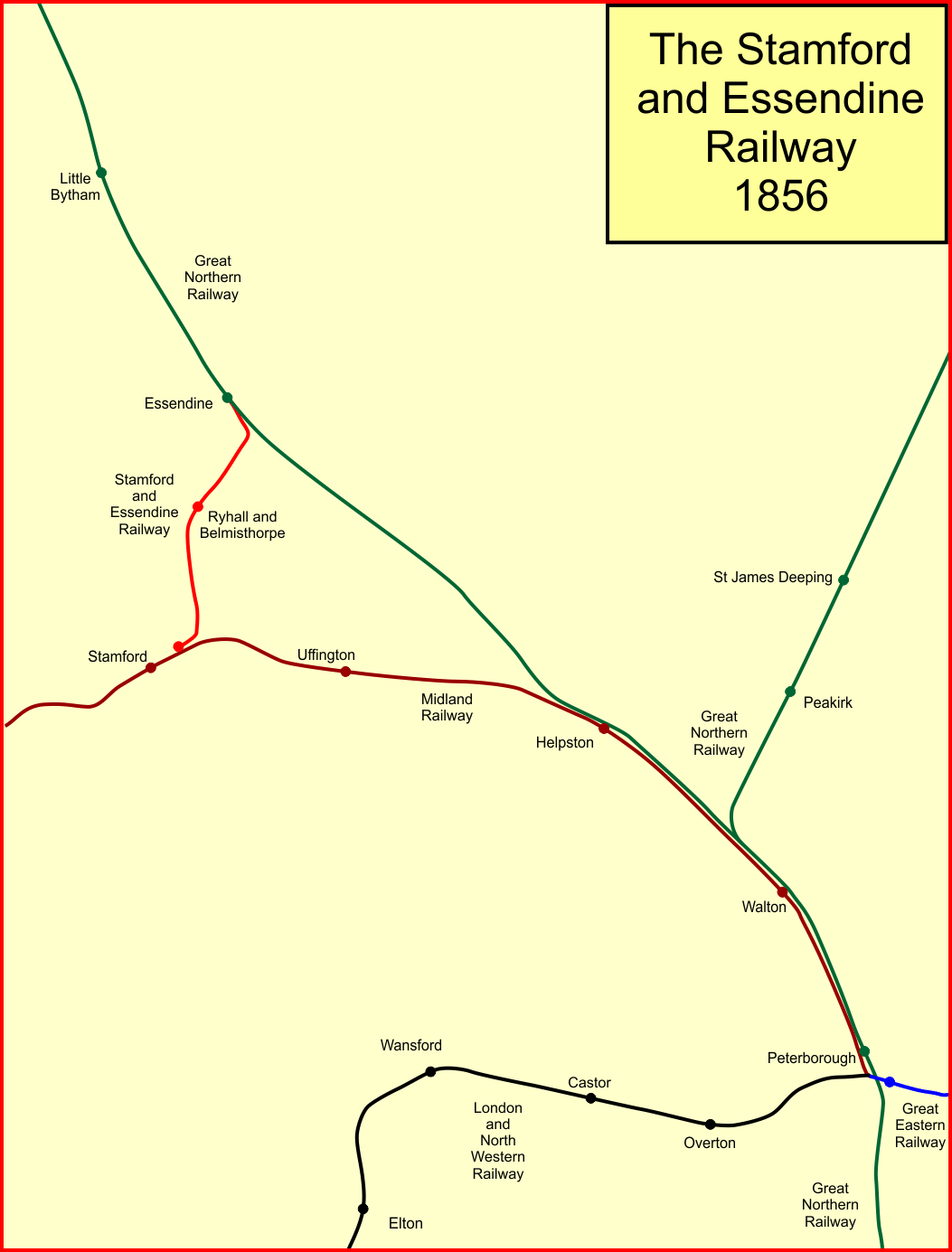 System map of the Stamford and Essendine Railway, England, on opening in 1855